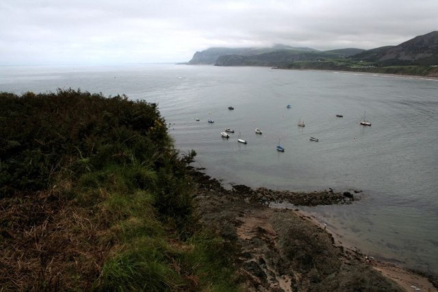 Activity for a cloudy seaside day On an overcast day, a group of holidaymakers go for a walk along the sea edge by Penrhyn Nefyn, photographed from the cliff path above on the headland. The summits of Yr Eifl SH3644 are cut off by cloud.